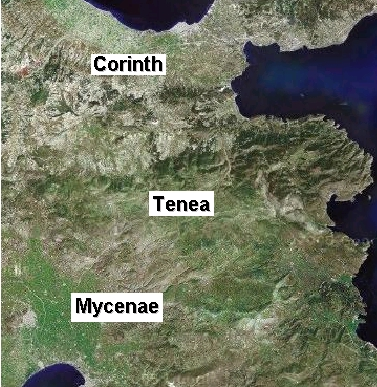 Tenea (Greek:Τενέα) is an ancient city in North-East Peloponnese, Greece.